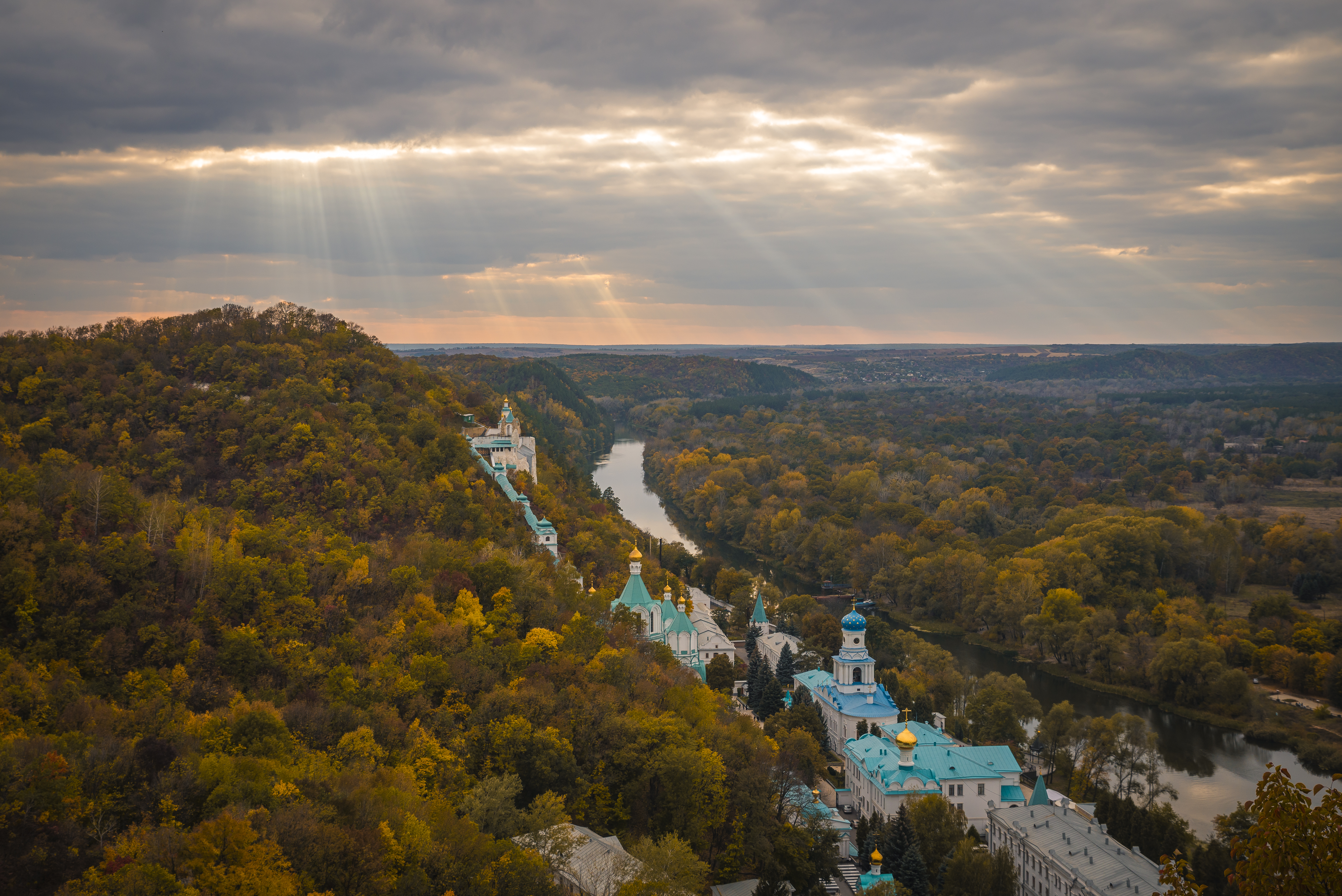 Holy Mountains Monastery (complex of the architecture monuments of national significance). Sviatohirsk, Donetsk Oblast, Ukraine.